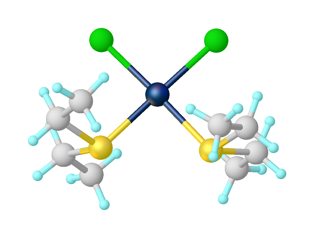 Structure of cis-PtCl2(SEt2)2